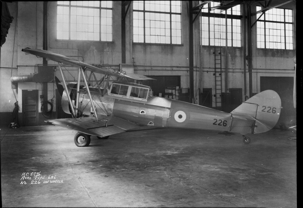 Avro Type 626 trainer, No. 226.